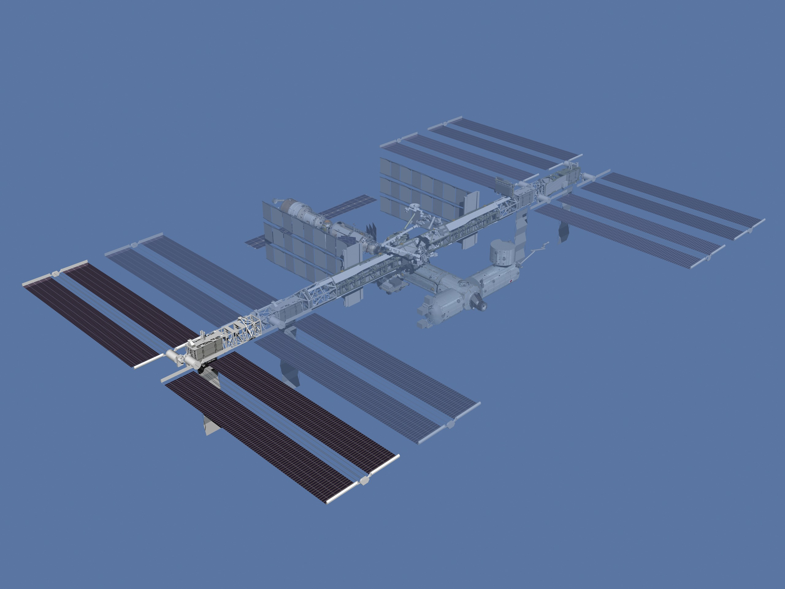 Computer-generated artist’s rendering of the International Space Station after flight STS-119/15A. Fourth starboard truss segment (S6) is delivered and installed. Fourth set of solar arrays is deployed. (Credit: NASA)